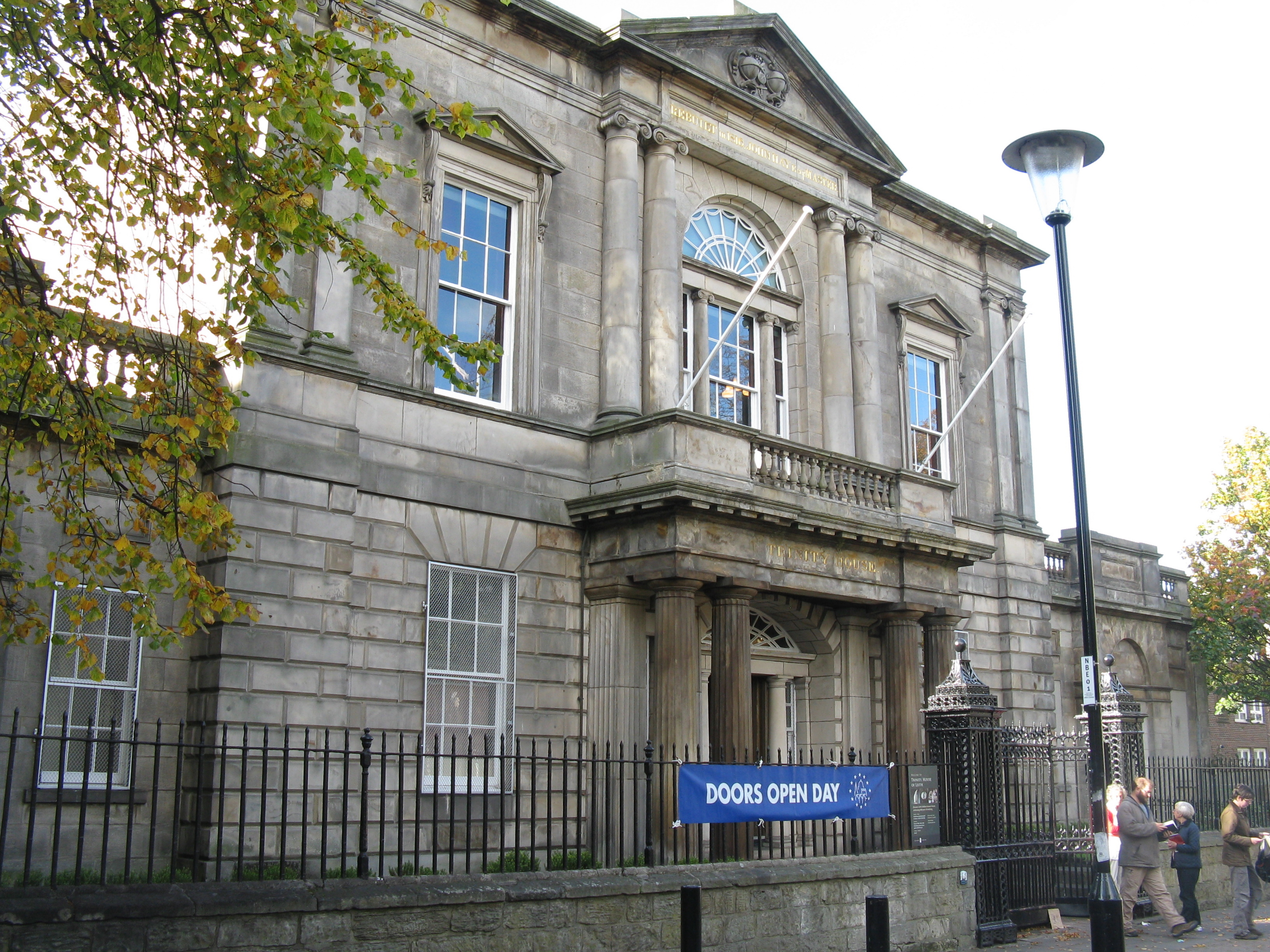 Trinity House, Leith, Scotland, during Doors Open Days 2011